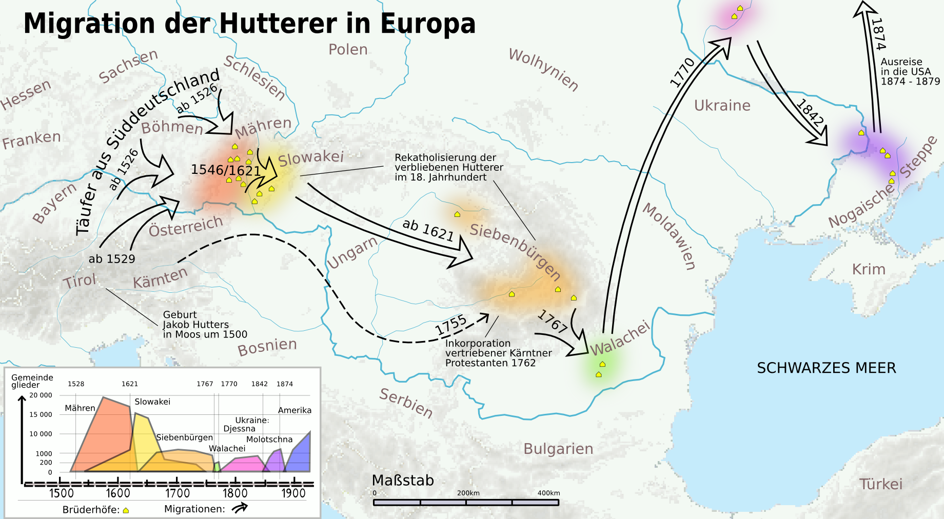 Migration of the hutterites in Europe 1526-1874. The map is based on "Europe_topography_map.png" by user:San Jose and some books about the Hutterite comunities. Authors: User:Karlis, User:Feetjen and users of the mapping-workshop This map has been made or improved in the German Kartenwerkstatt (Map Lab). You can propose maps to improve as well.